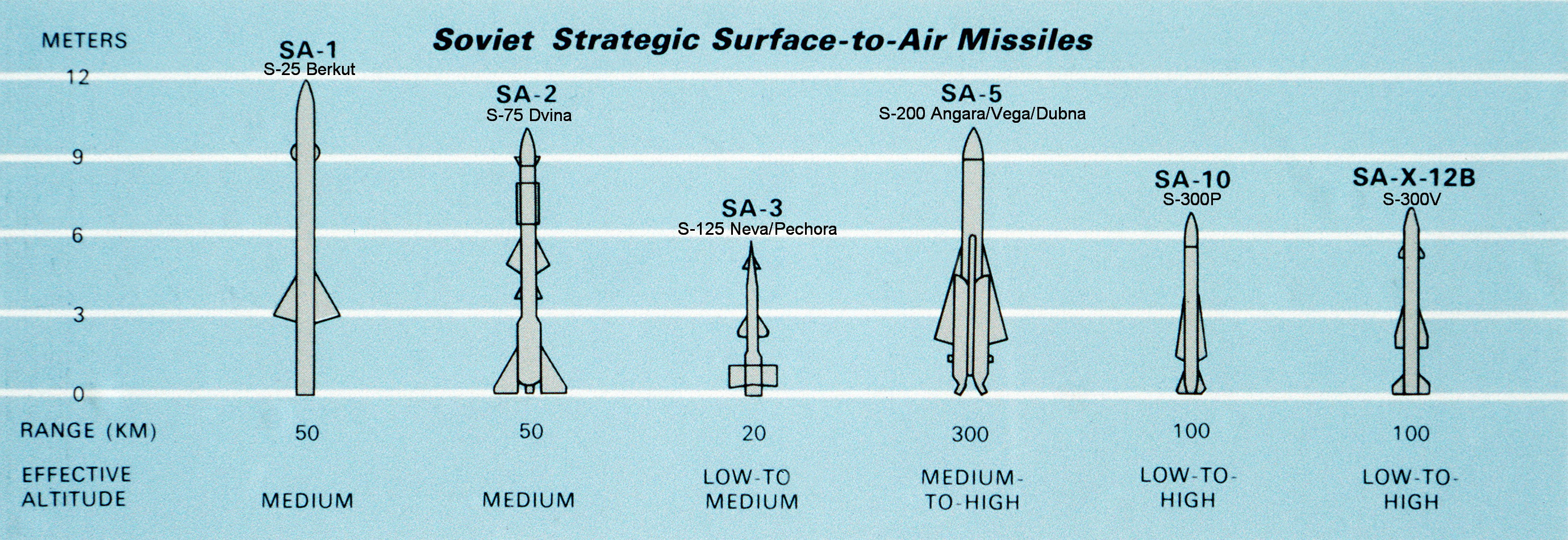 A comparison of soviet strategic surface-to-air missiles in the 1980ies.